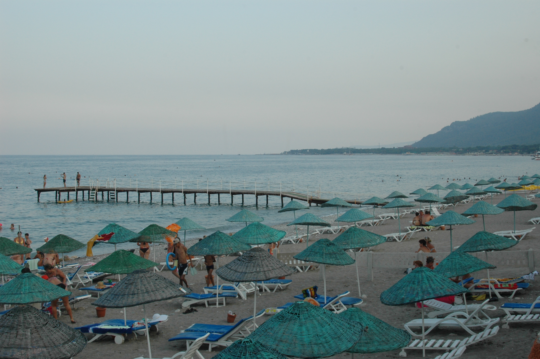 beldibi kemer antalya turkey sahil türkiye